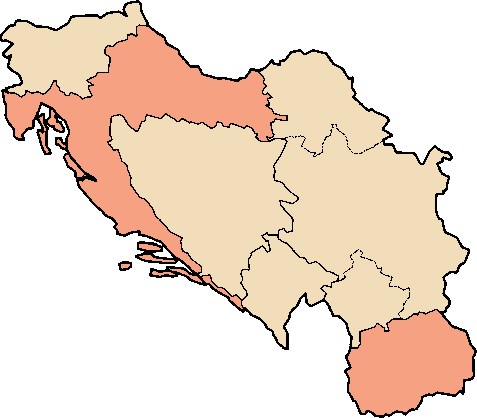 Location of SR Croatia and SR Macedonia in SFR Yugoslavia